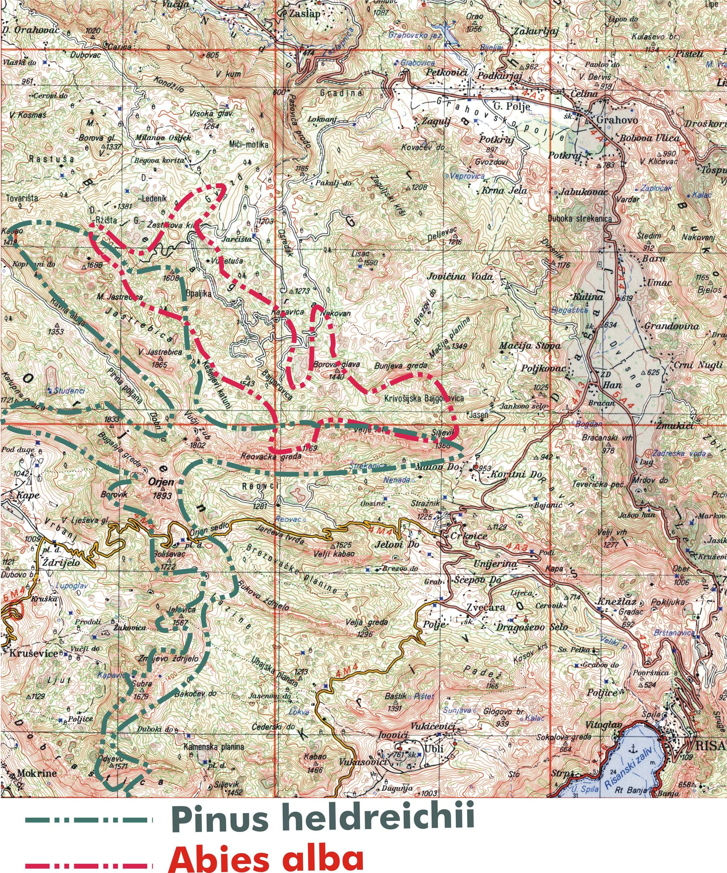 Distribution of Abies alba and Pinus heldreidchii on Orjen. Map: Tk-100 of the VGI - Belgrade 1984, used with permission. Design Pavle Cikovac. Copyright (c) 2004 Pavle Cikovac.